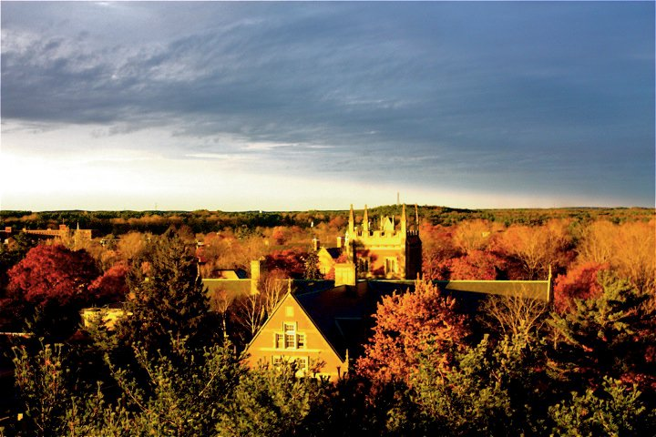 View of Bowdoin College, Fall 2010